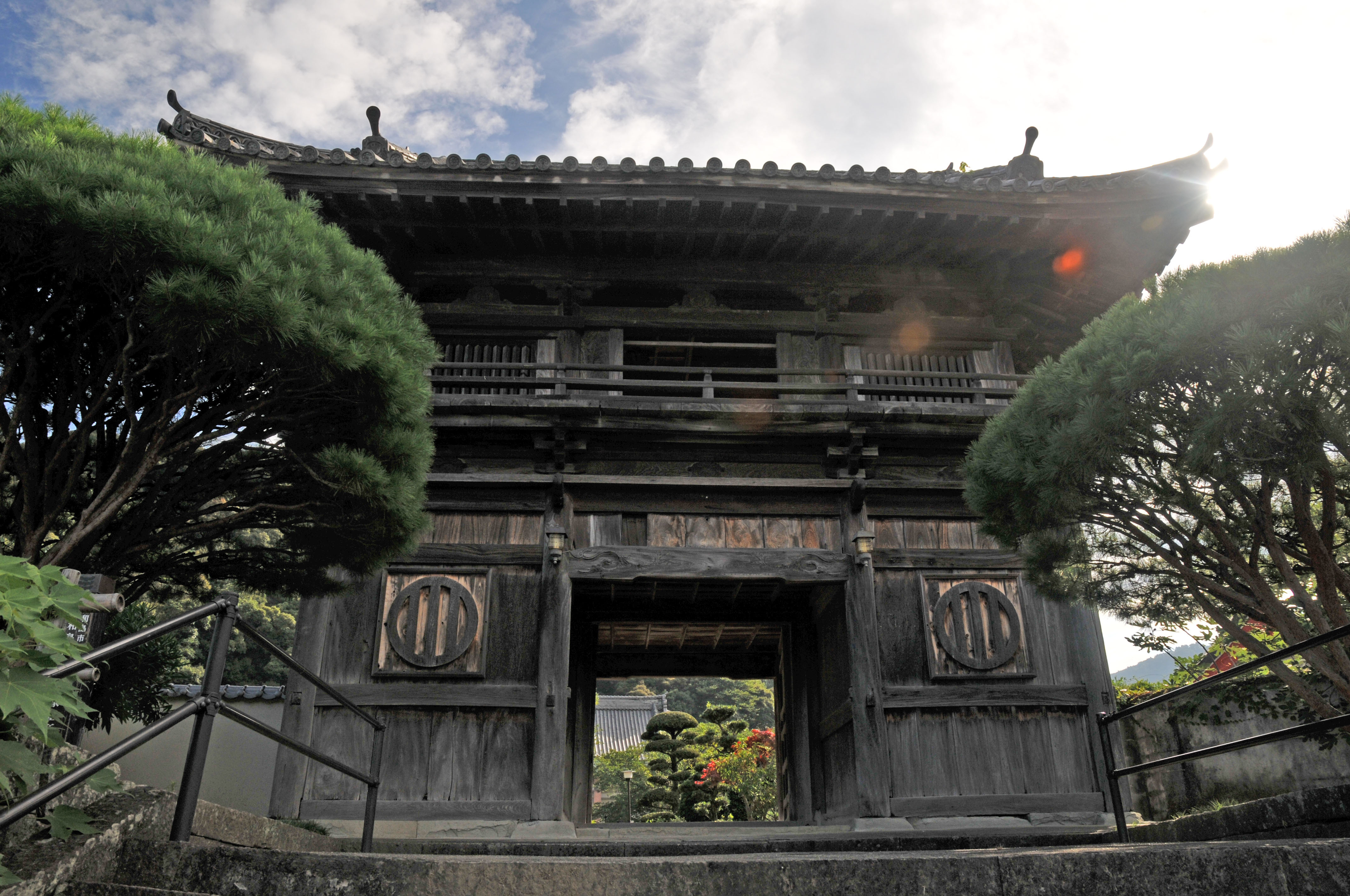 Temple gate, Tōgaku-ji